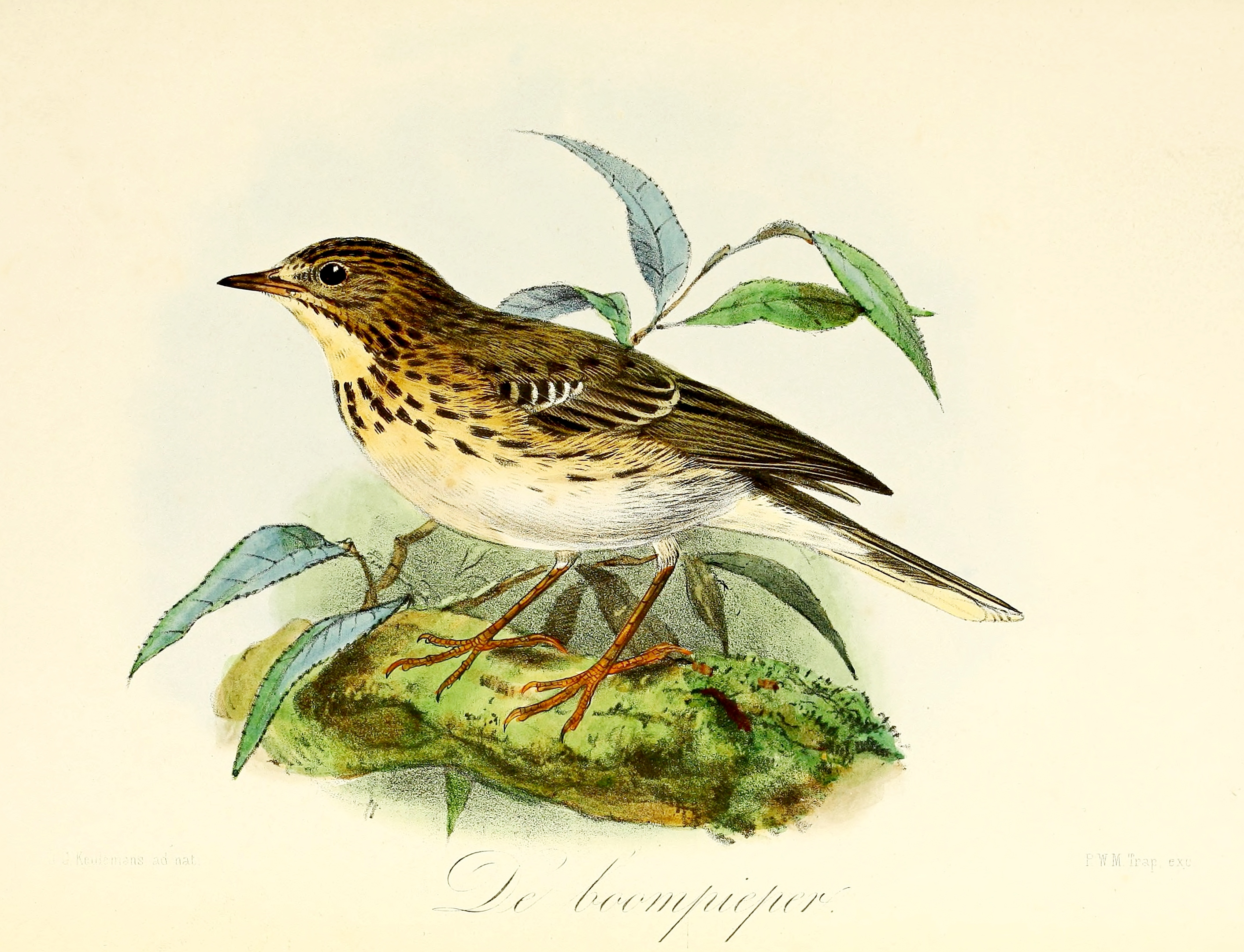 « Anthus arboreus » = Anthus trivialis (Tree pipit)